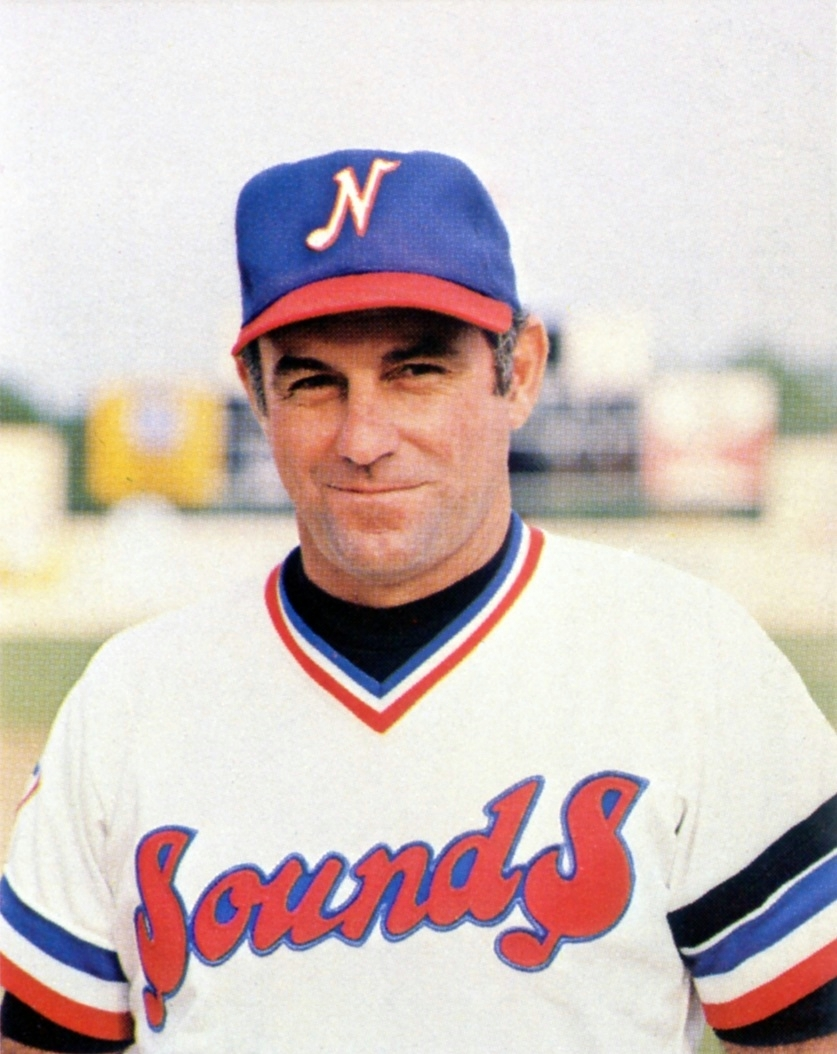 Hitting coach Ed Napoleon of the 1980 Nashville Sounds Minor League Baseball team of the Southern League